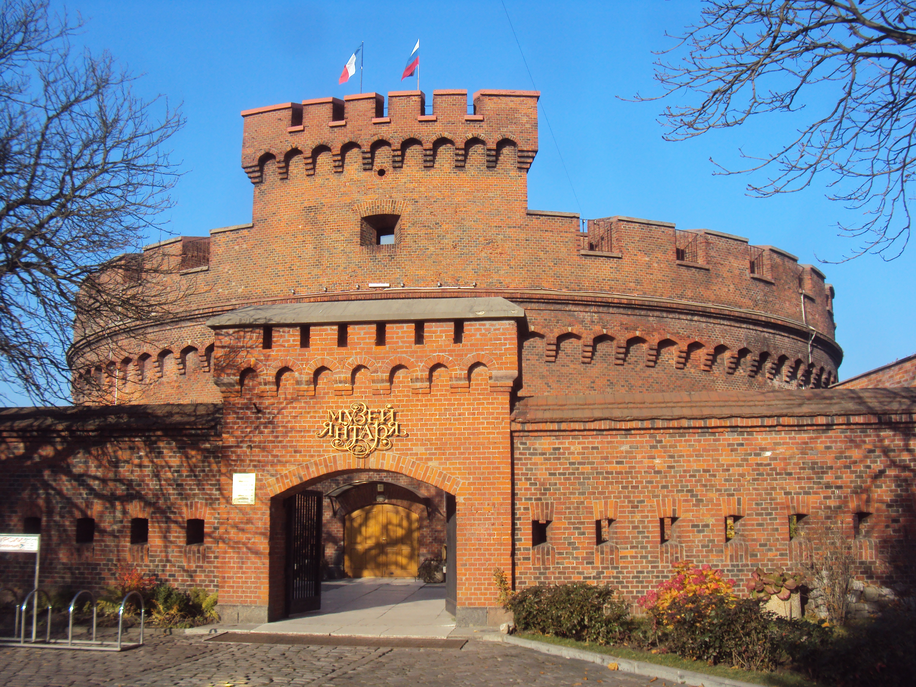 Dona Tower